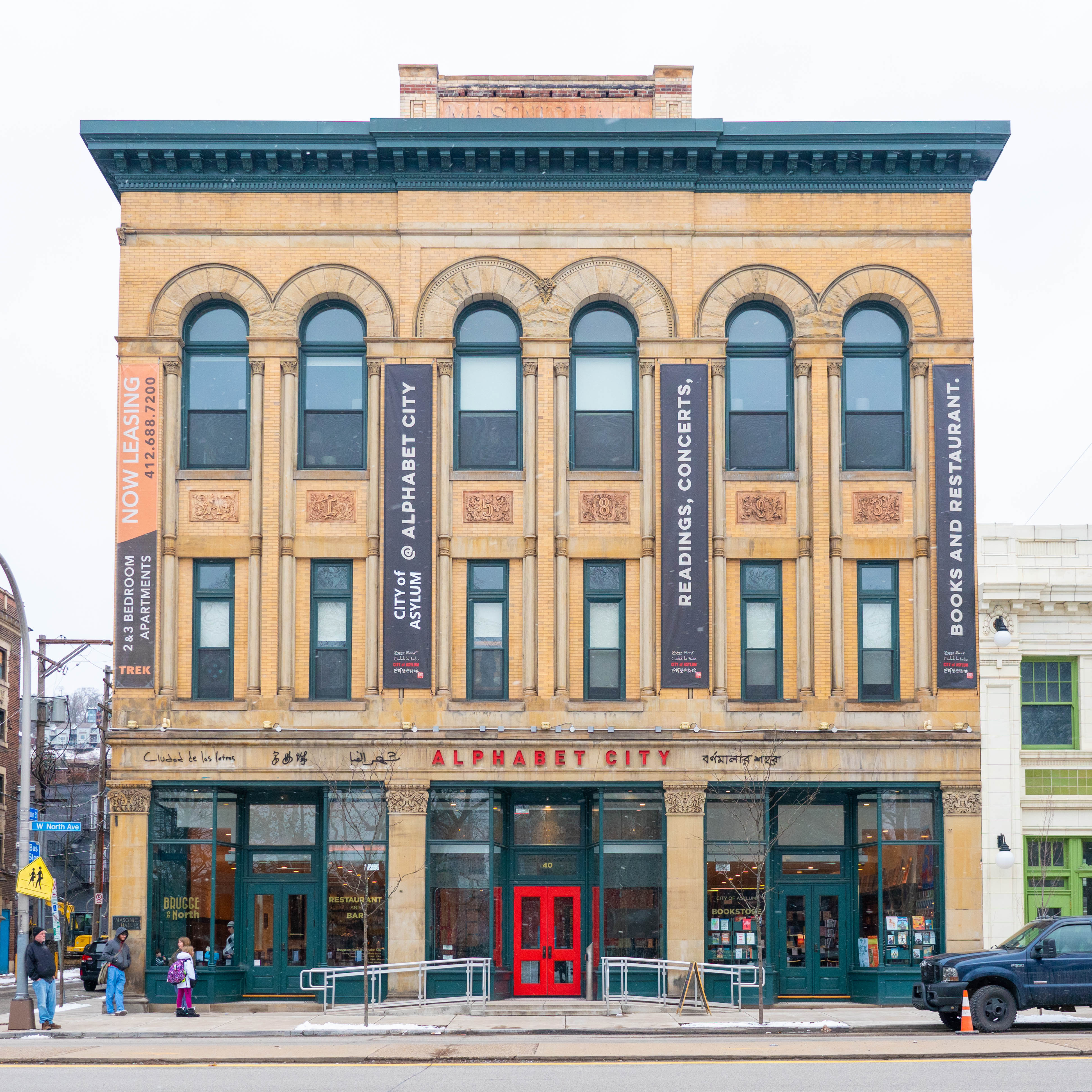 Alphabet City is an old masonic building renovated and used by City of Asylum. The building houses a bookstore, condos, offices, a restaurant, and serves as a venue space.